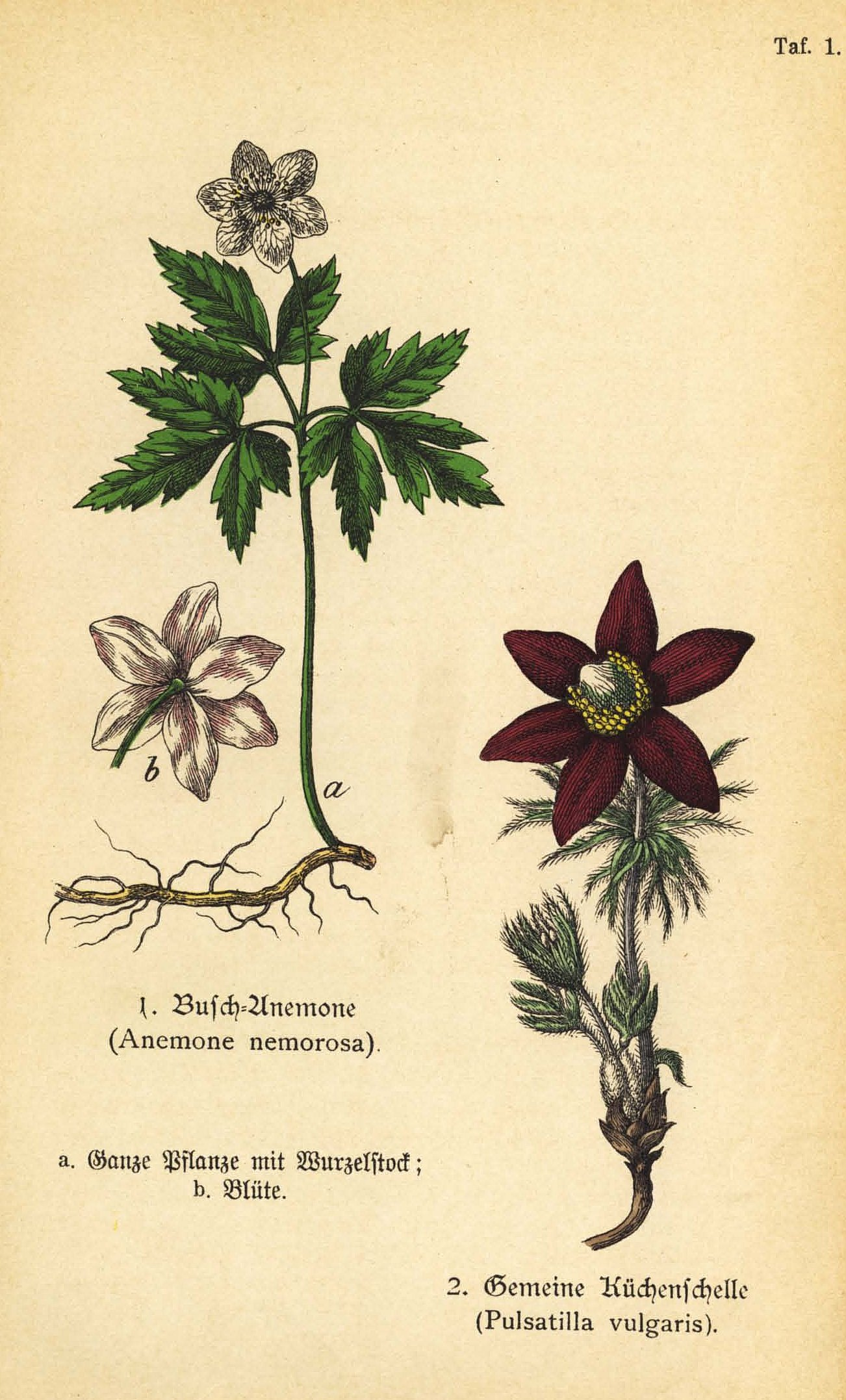 Anemone nemorosa L. on lithography by Jakob Ferdinand Schreiber next to page 10 of "Die einheimischen Giftpflanzen (1887)" by Mathias Kraus, Luxembourg.